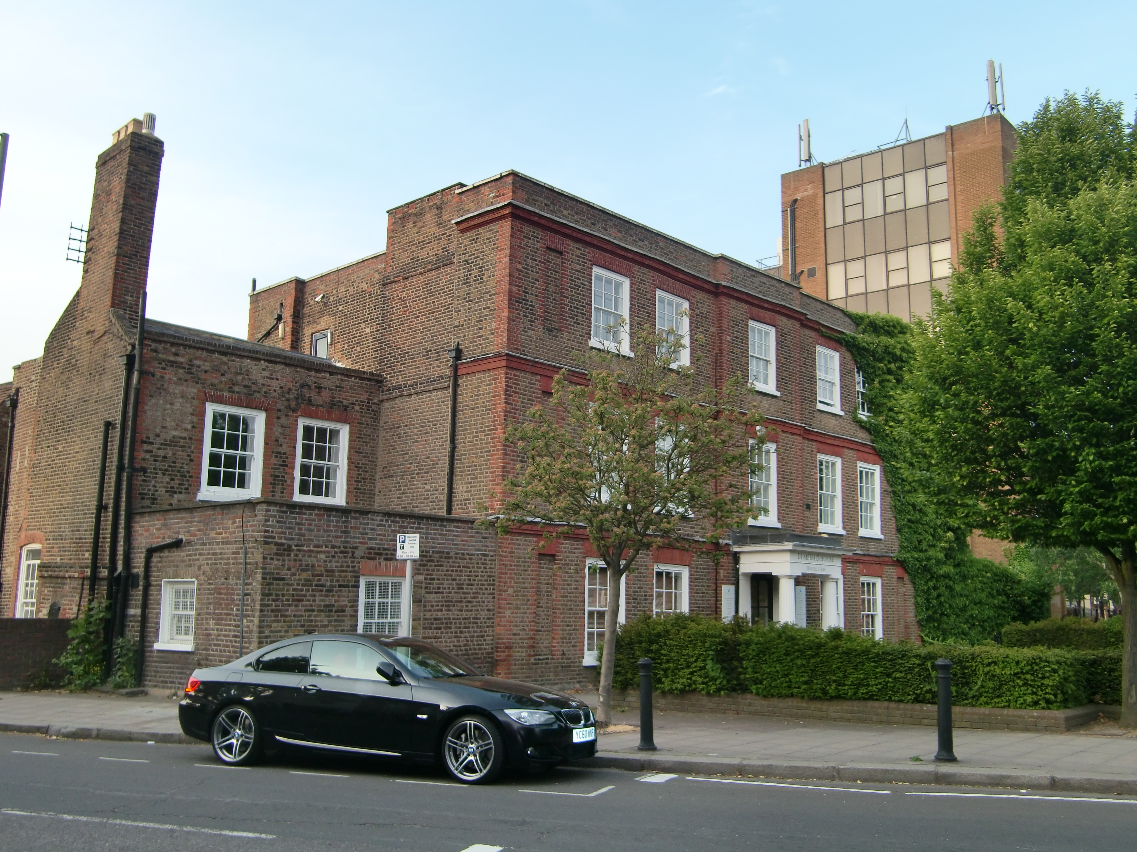 Grand building on the corner of Waldegrave rd and the High street, currently a dentists, formerly council offices, originally a very grand home